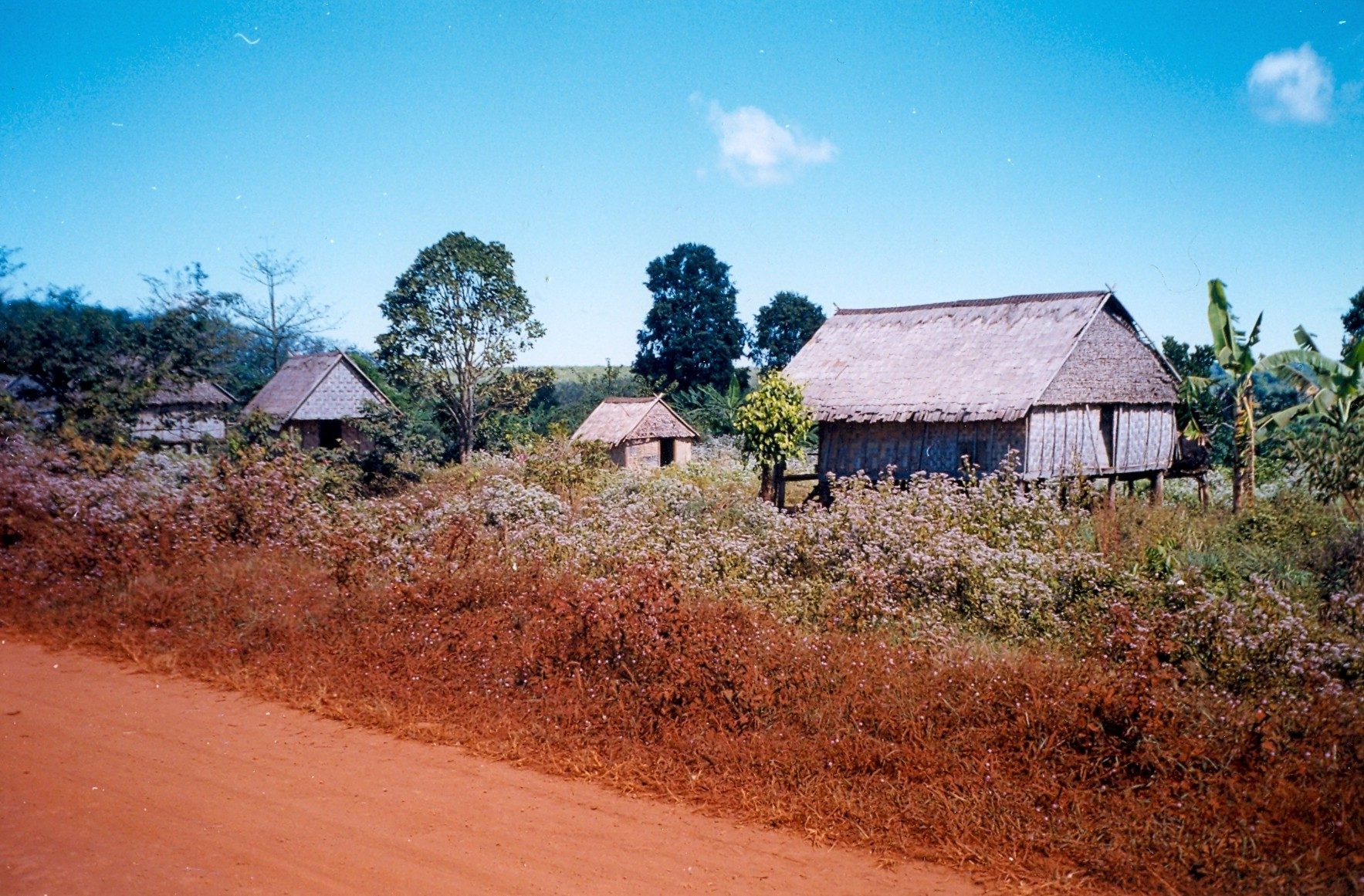 Hill tribe village in Rattanakiri, Cambodia.